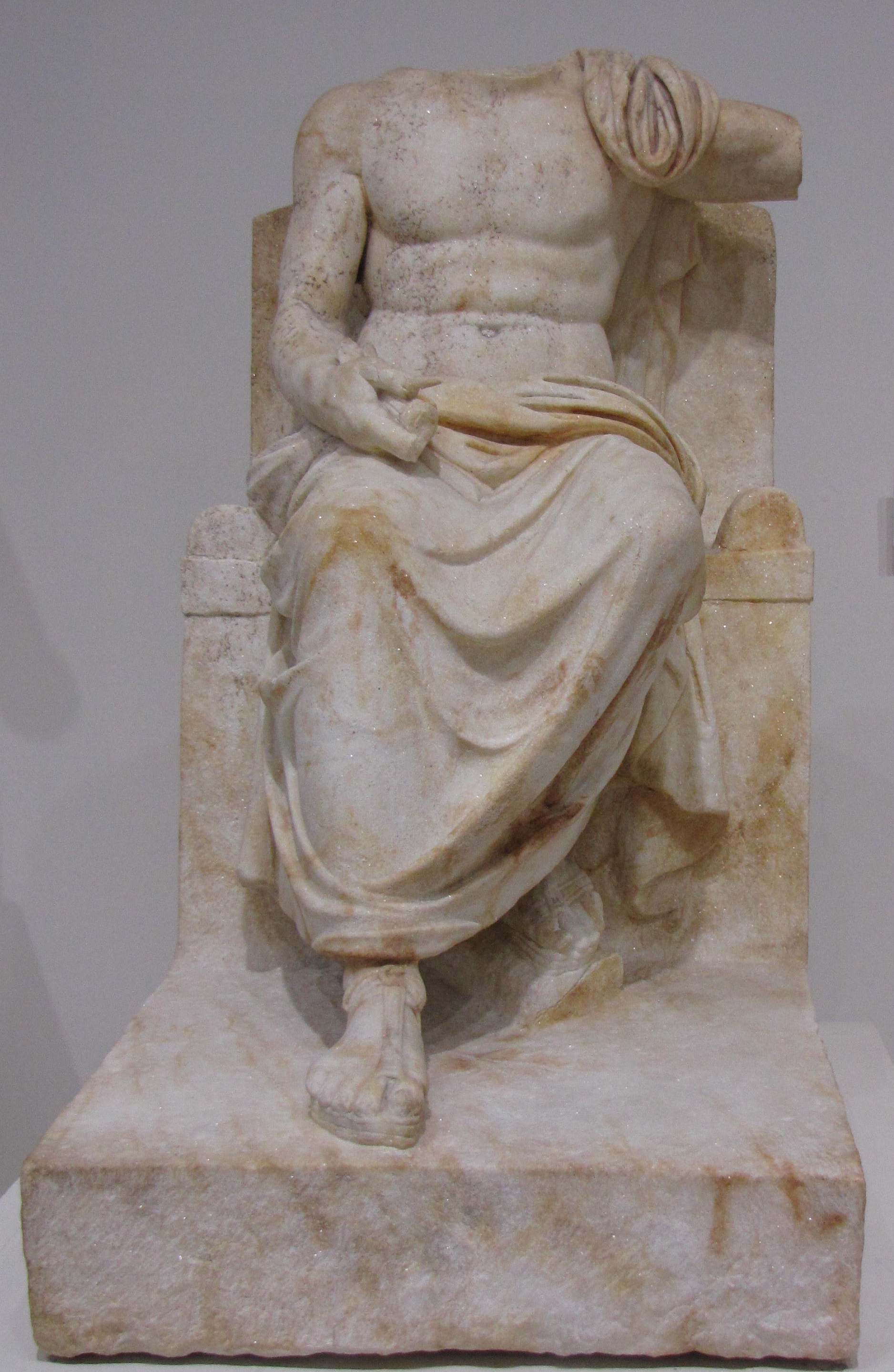 Zeus Hypsistos